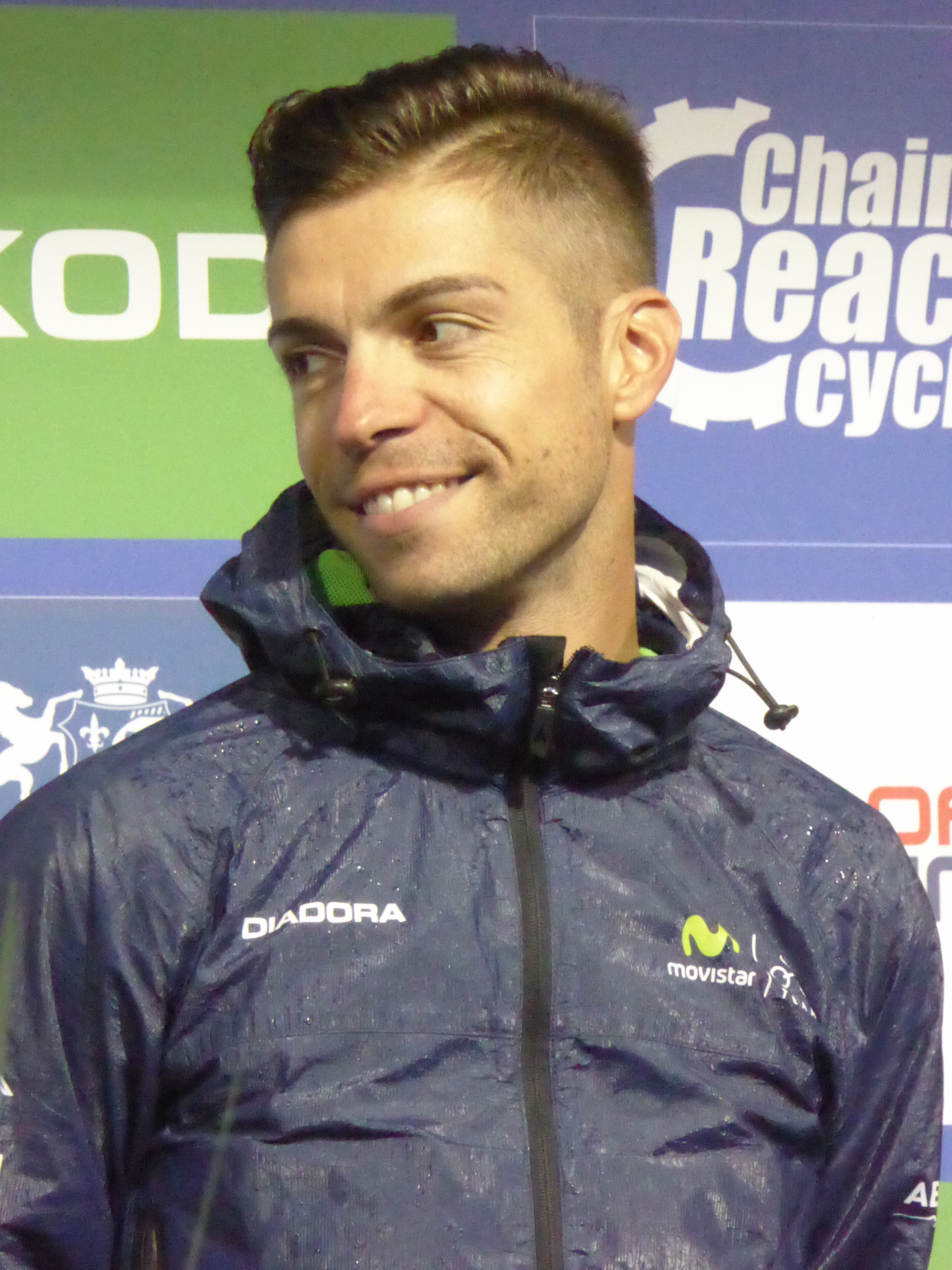 Giovanni Visconti (Movistar Team), pictured at the 2016 Tour of Britain team presentation in Glasgow on 3 September 2016.